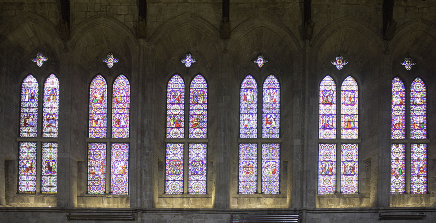 Stained glass windows designed by Augustus Pugin within the south wall of the priory church of St Mary and St Cuthbert, Bolton Abbey, North Yorkshire